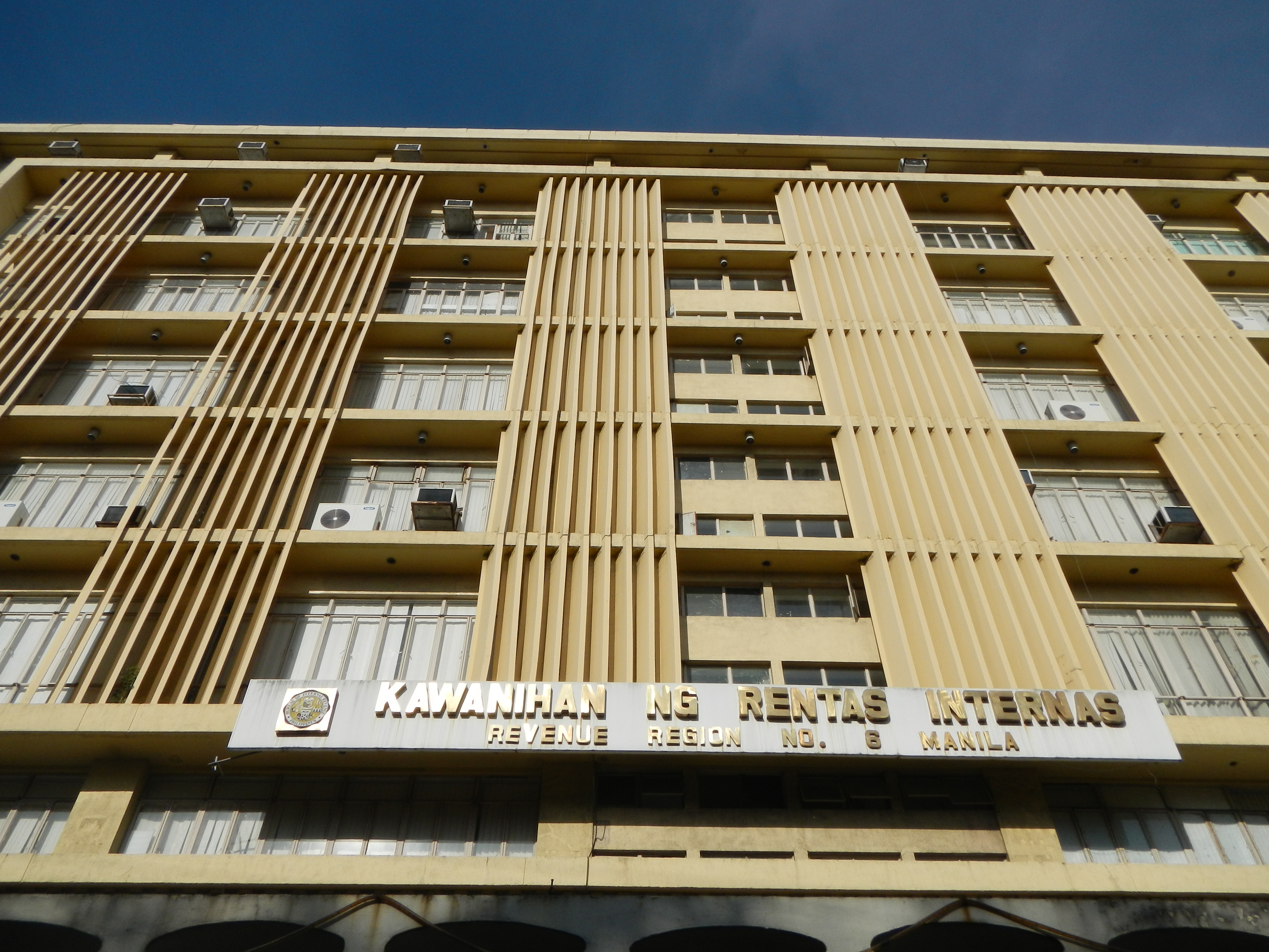 Bureau of Internal Revenue Building in Intramuros.